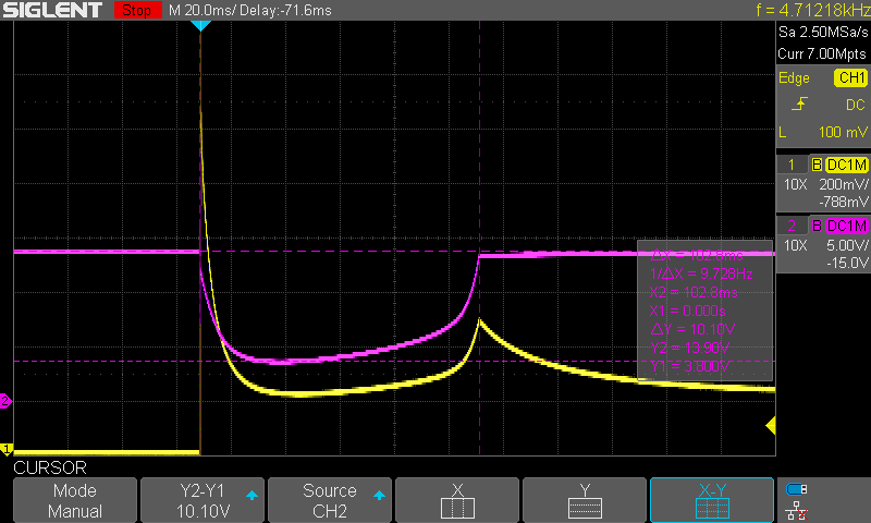 This oscillogram shows a bench power supply current limit circuit operate on the inrush surge of a small incandescent lamp. Lamp current is in yellow, approximately 2 amps/vertical division, power supply voltage is pink, 5 volts/division. For a fraction of a millisecond, the lamp attempts to draw about six times its steady-state current. The overcurrent protection circuit of the power supply dropped the output voltage from 13.9 V down to about 3 volts to limit current and protect the power supply. After about 100 milliseconds, the foldback current limit circuit resets and the voltage returns to full value - a small extra surge of lamp current occurs when the voltage is restored, then the lamp slowly returns to its steady state current draw of 2.3 amps.